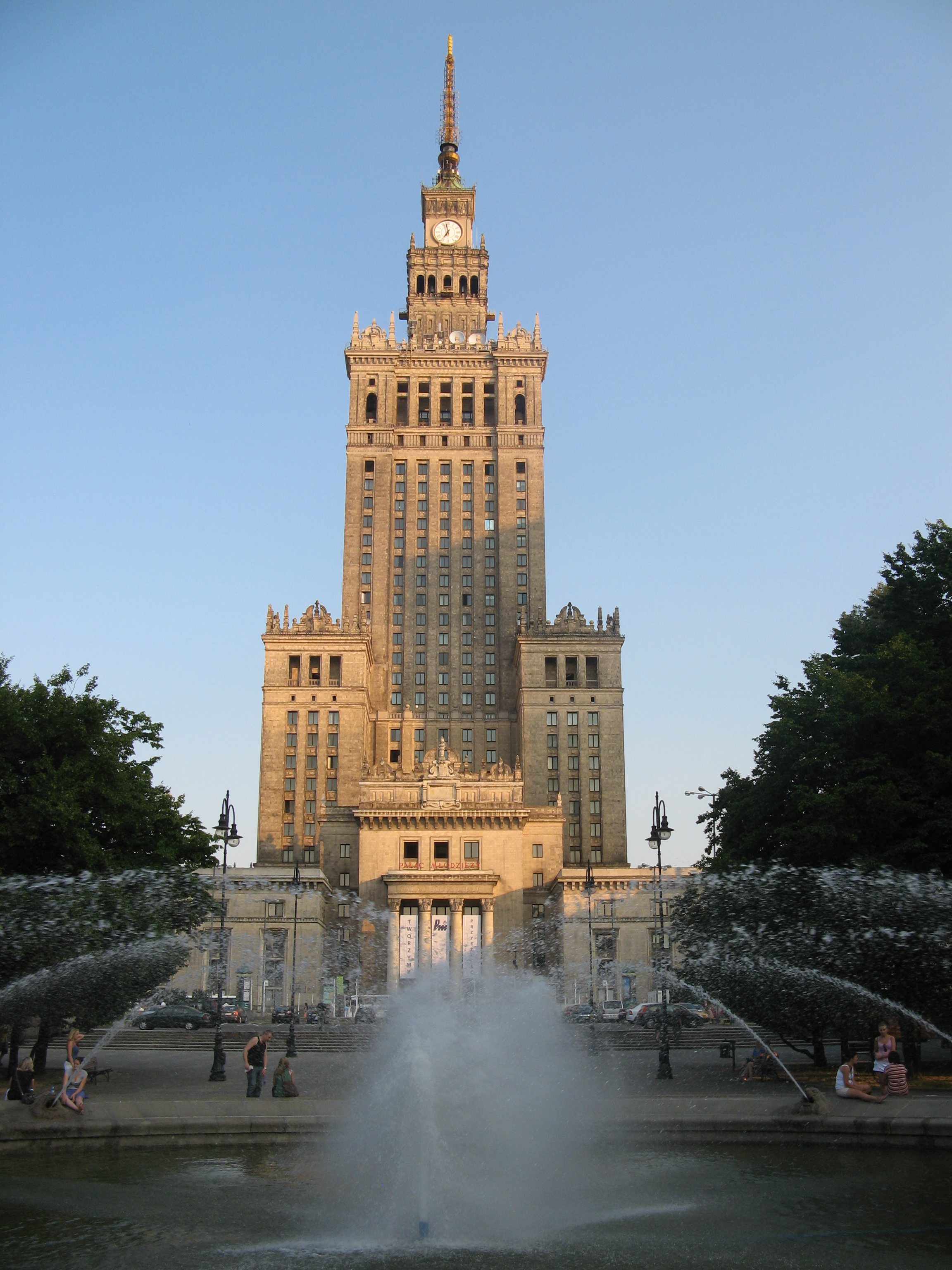 The impressive Palace of Culture and Science, Warsaw. Stalin's Gift to the Poles. ;)